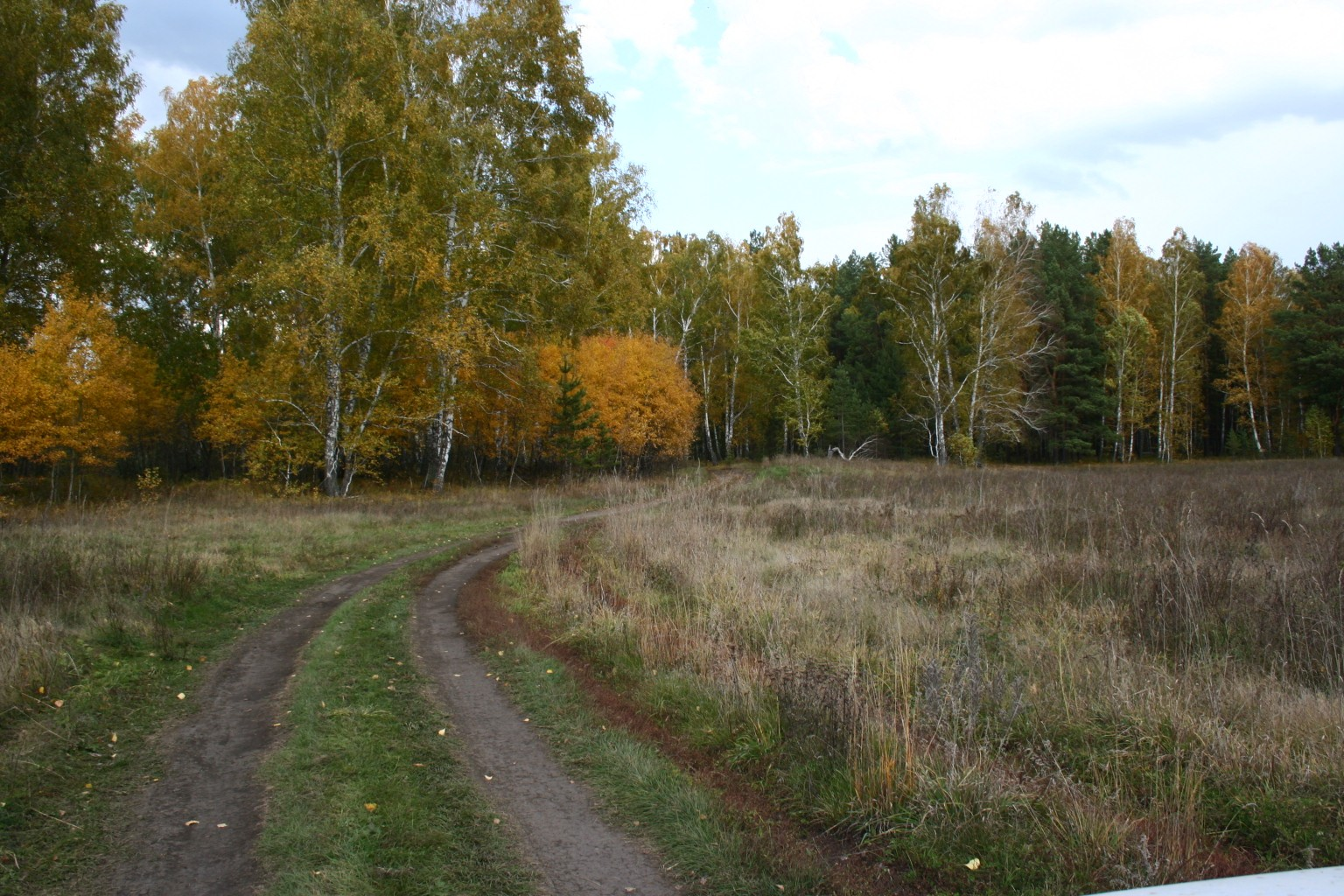 Autumn in mixed forest